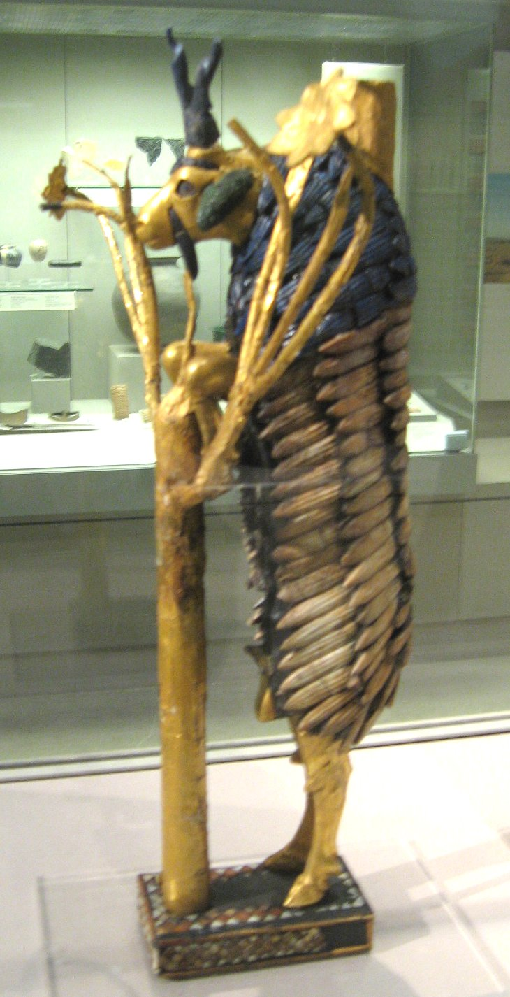 Ram in a thicket; Photograph taken by me January 5 2008